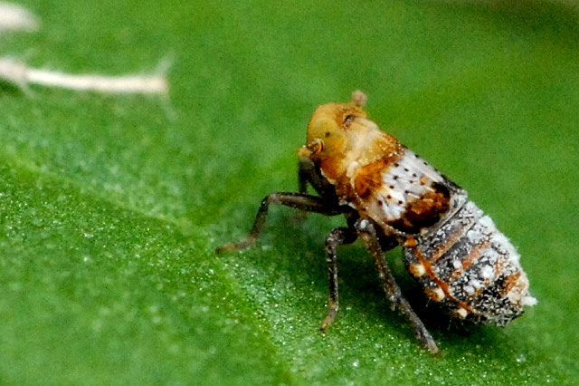 Conomelus anceps from Commanster, Belgian High Ardennes .